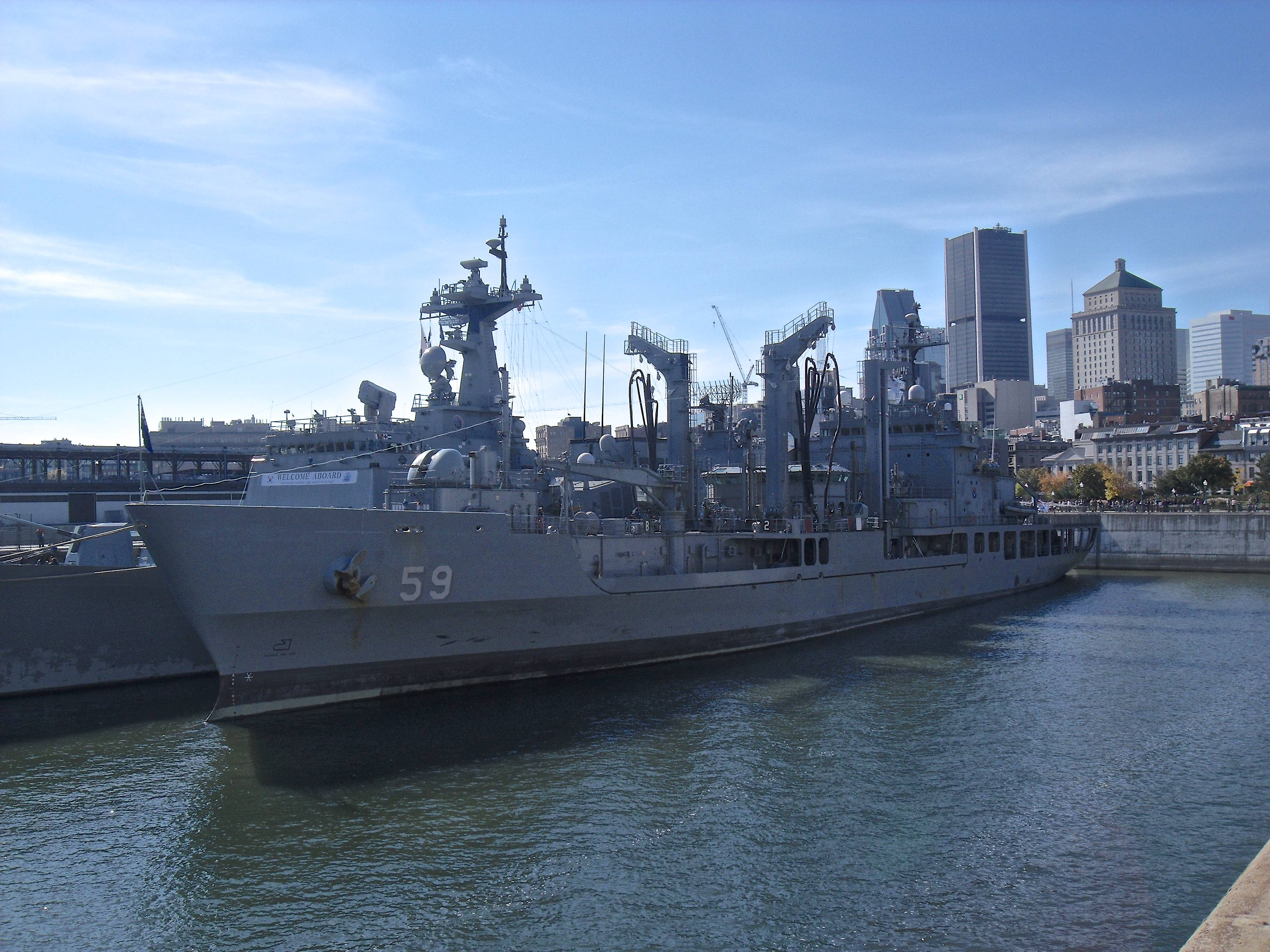 Destroyer ‘ROKS Dae Jo Yeong’ and logistical support ship ‘ROKS Hwa-Cheon’ visit Montreal from Oct 13th to Oct 16th 2013 in recognition of the 60th anniversary of the Korean War Armistice and the 50th anniversary of Korea Canada diplomatic relations.